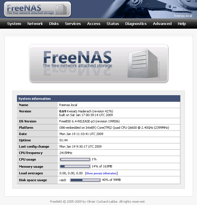 FreeNAS 0.69 Screenshot